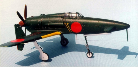 Model of Japanese Kyūshū J7W Shinden interceptor, ca. 1945